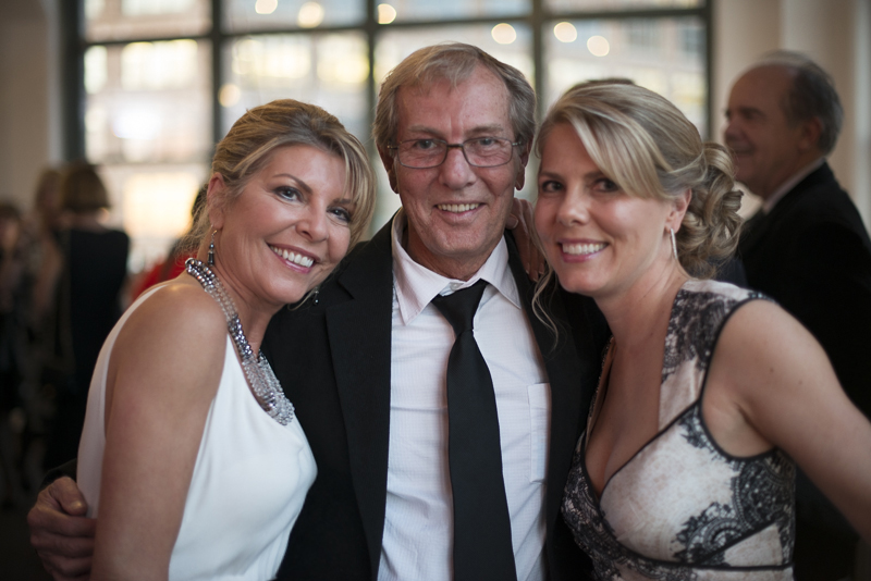 Photo by Michael Miller. Uploaded by the photographer himself. Family portrait of the photographer George A. Tice with his daughters, Lisa and Jennifer at the George Eastman House Light and Motion Gala, May 5, 2014.